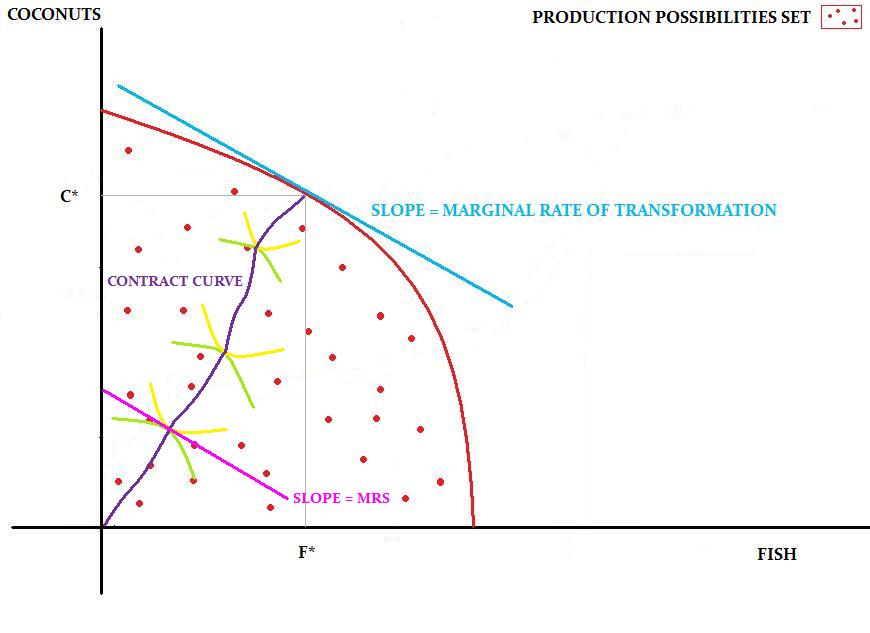 At each point on the PPF, an Edgeworth box can be drawn to illustrate possible consumption allocations